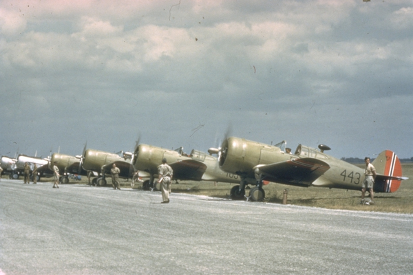 Curtiss and Douglas aircraft lined up at Little Norway